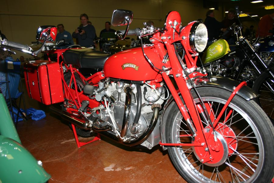 Summary Photo by Robert Stokstad.